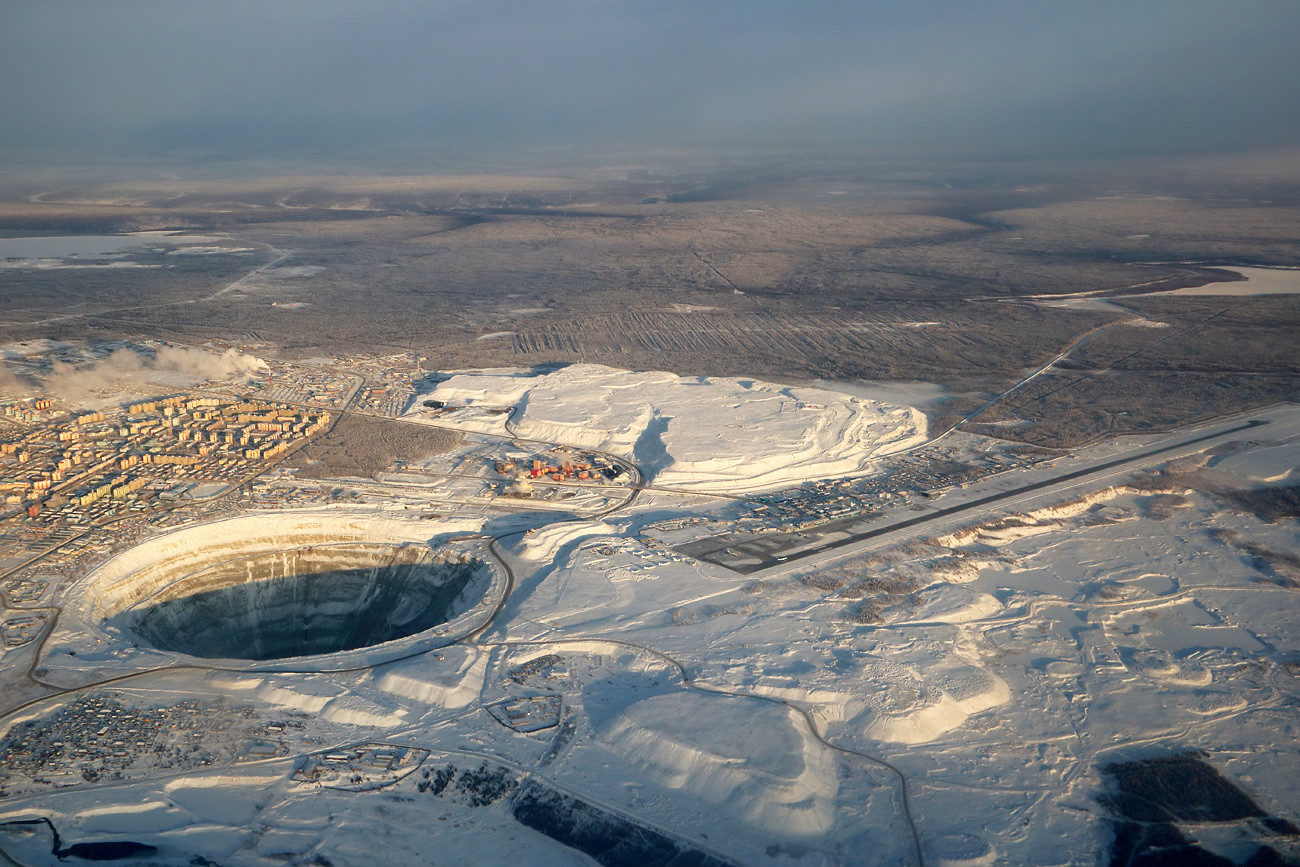 Aerial view of Mirny city, Mir mine and Mirny Airport